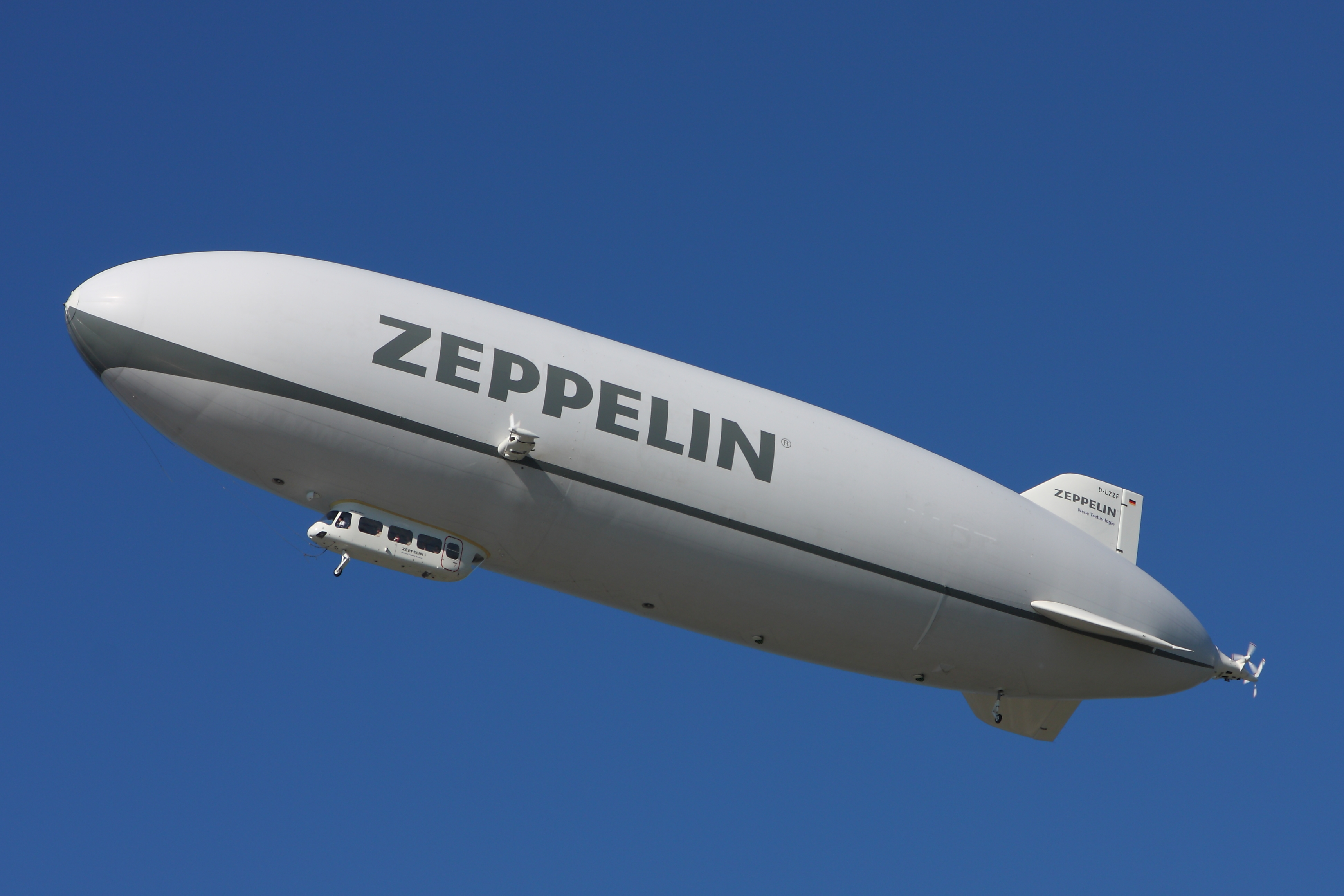 Zeppelin NT